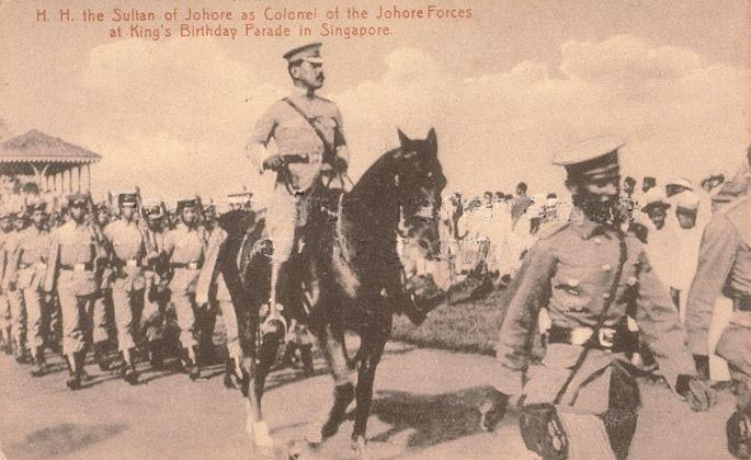 Sultan Ibrahim of Johore (reigned 1895-1959) as Colonel of the Johore Forces at King's Birthday Parade in Singapore